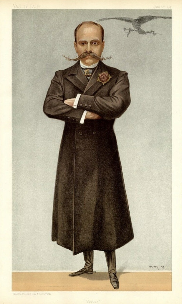 Princes No.20: Caricature of Prince Victor Napoleon. Caption reads: "Victor"